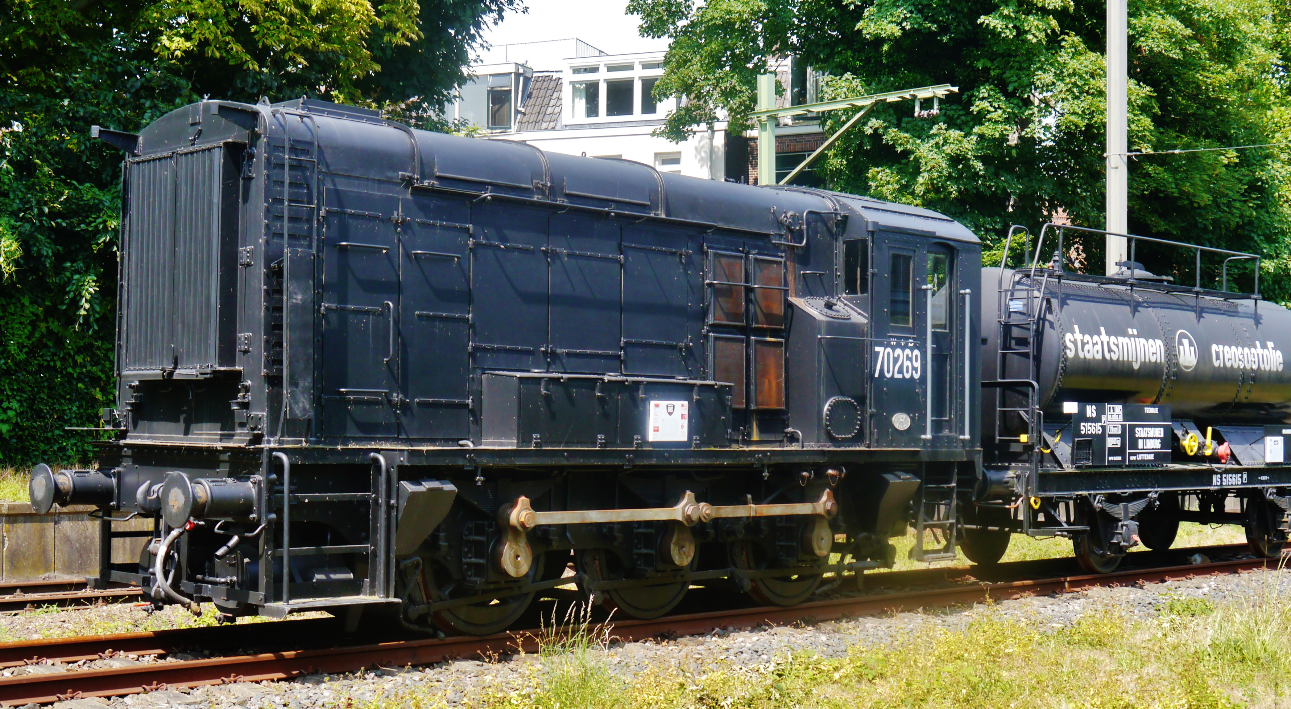 Outer Area of the Dutch Railway Museum, Utrecht, Province of Utrecht, Netherlands